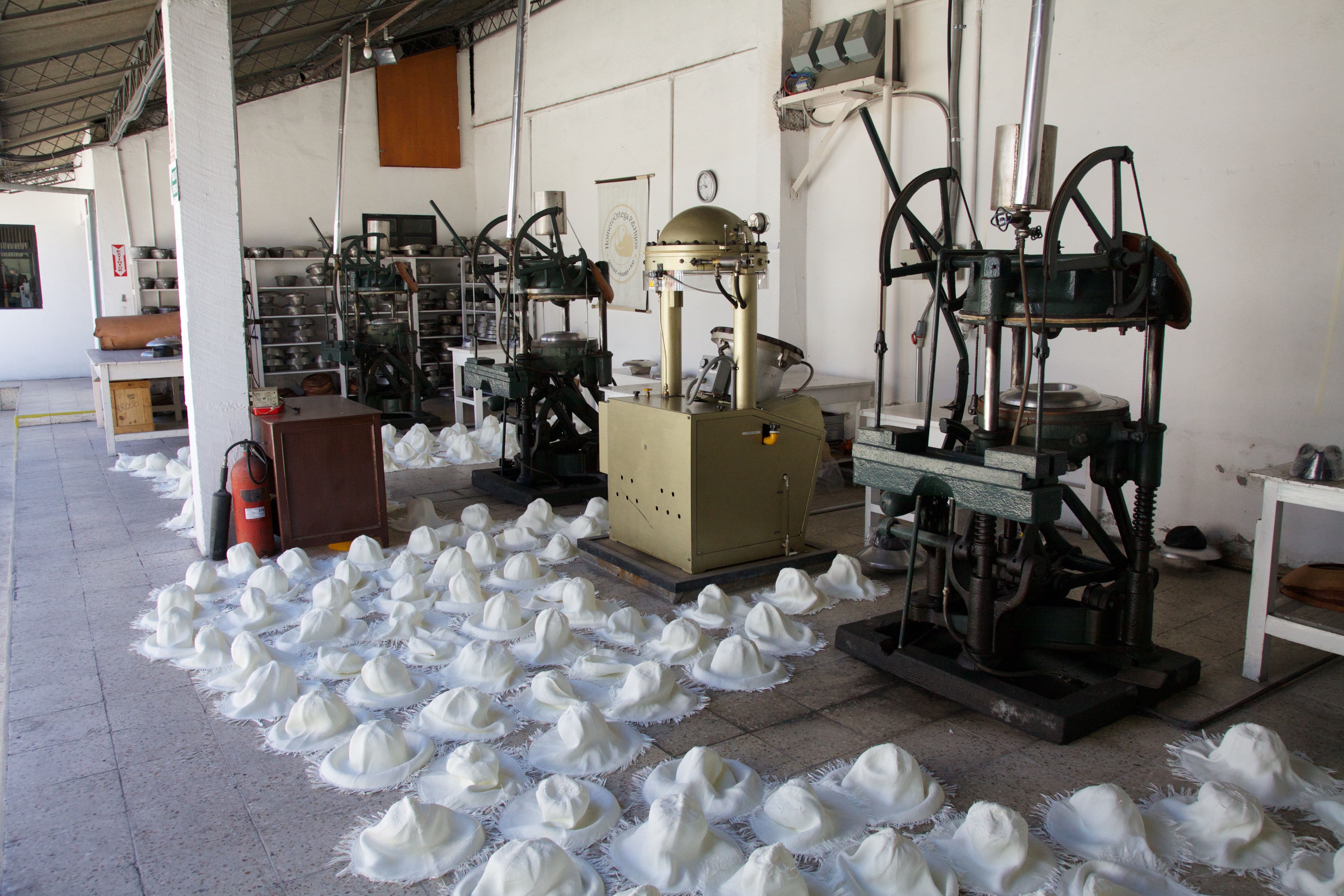 Panama hats are not made in Panama. All Panama hats are made in Ecuador and no visit to that country is complete without a tour of a factory. This is the Homero Ortega Panama Hat factory in Cuenca, Ecuador. The white, woven hats on the floor have been woven by native women in their homes and sold to the factory who does all of the finishing work on them.